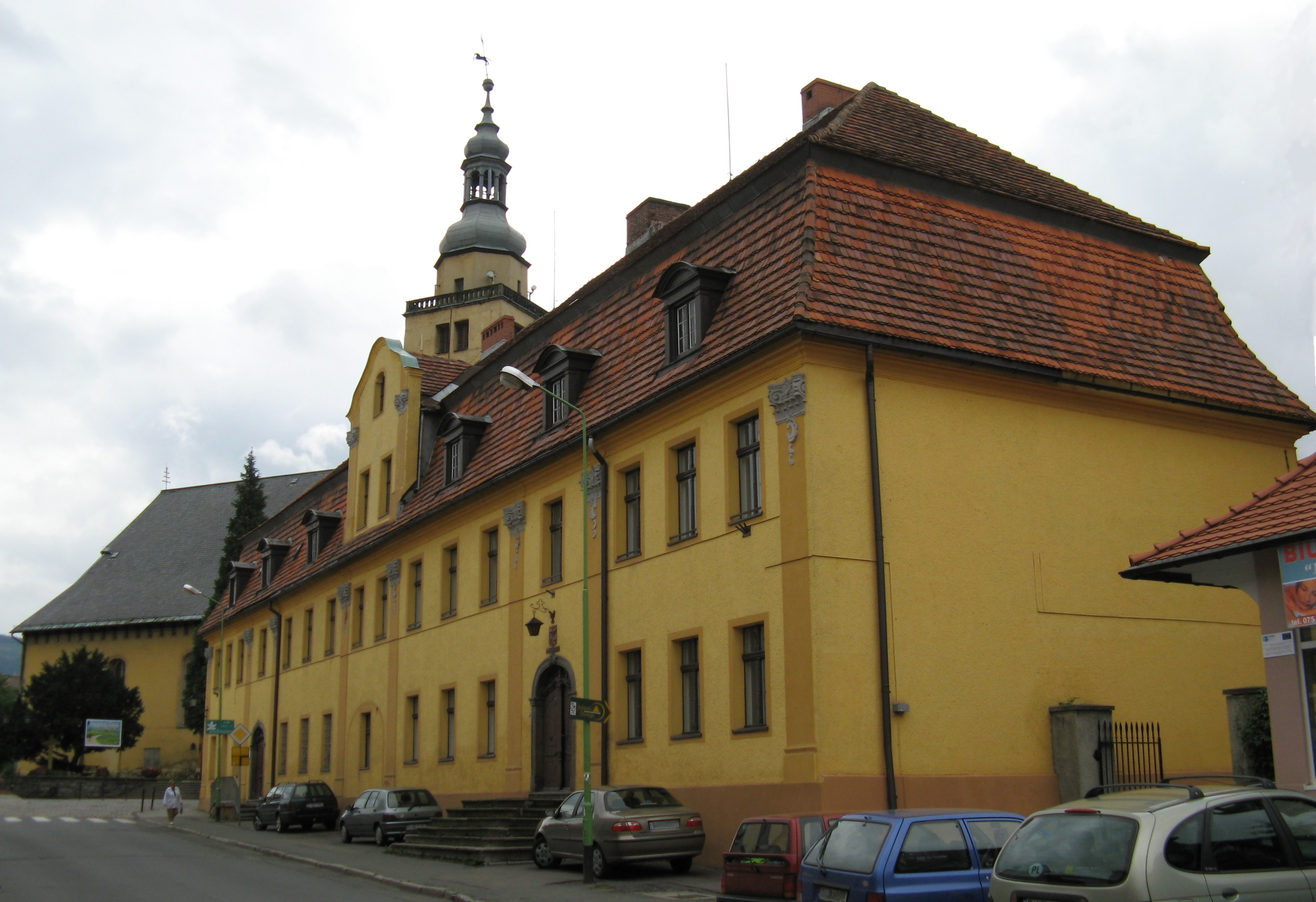 Franciscan's home (viewed from NW direction); Kowary